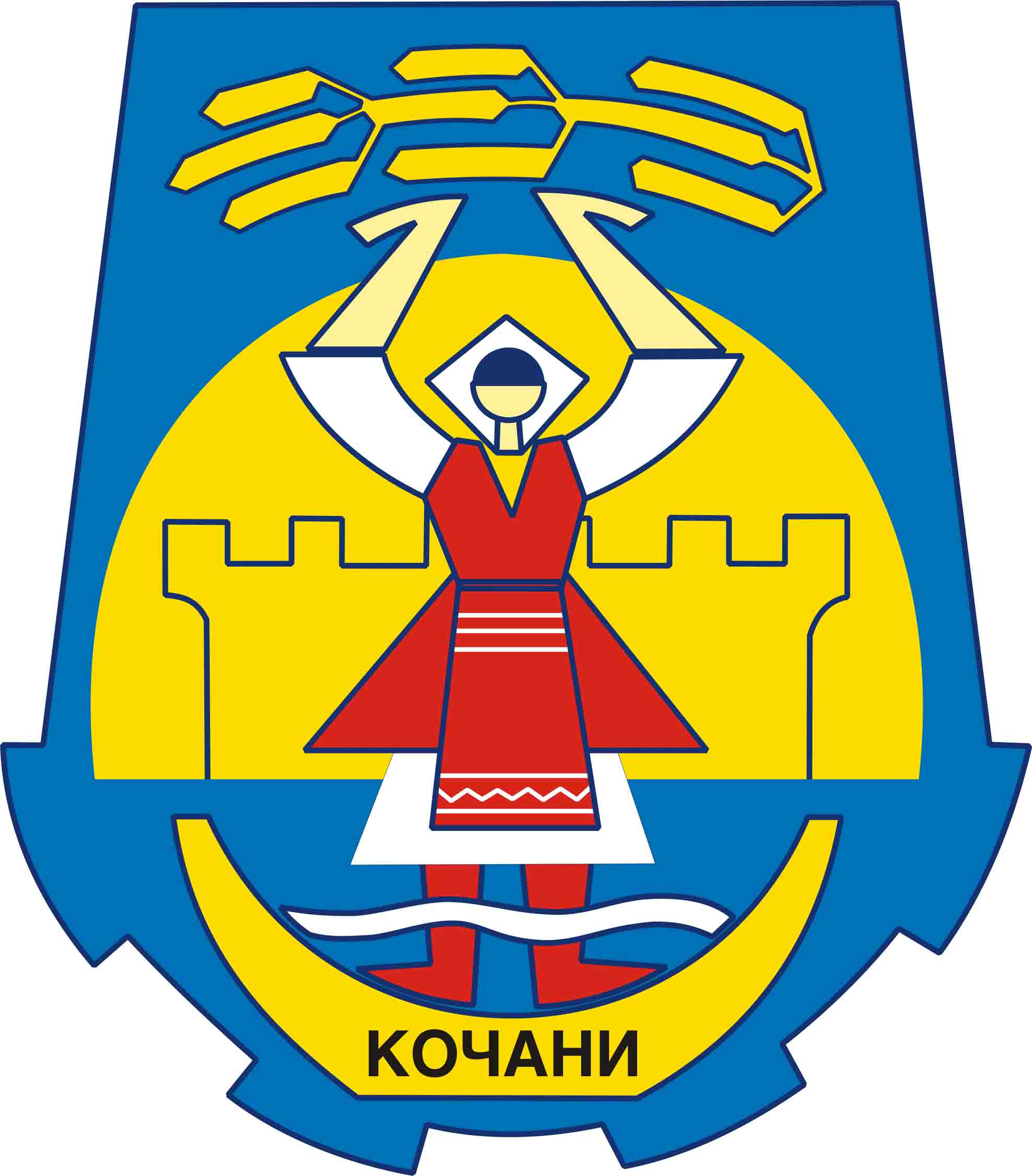 The old coat of arms of Kocani